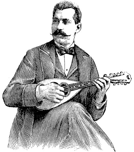 Portrait of mandolinist, bandmaster and composer Carlo Curti, also known as Carlos Curti, from his 1896 book "Complete Method for the Mandolin".